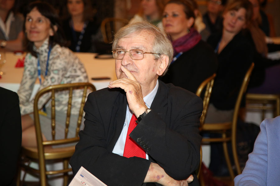 Ari Rath-5659